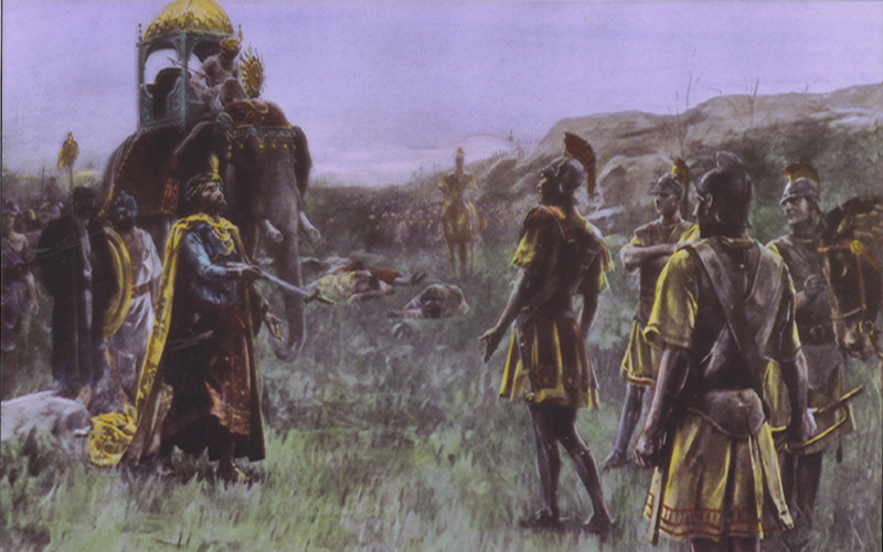 Alexander accepts the surrender of Porus by Andre Castaigne (1898-1899)